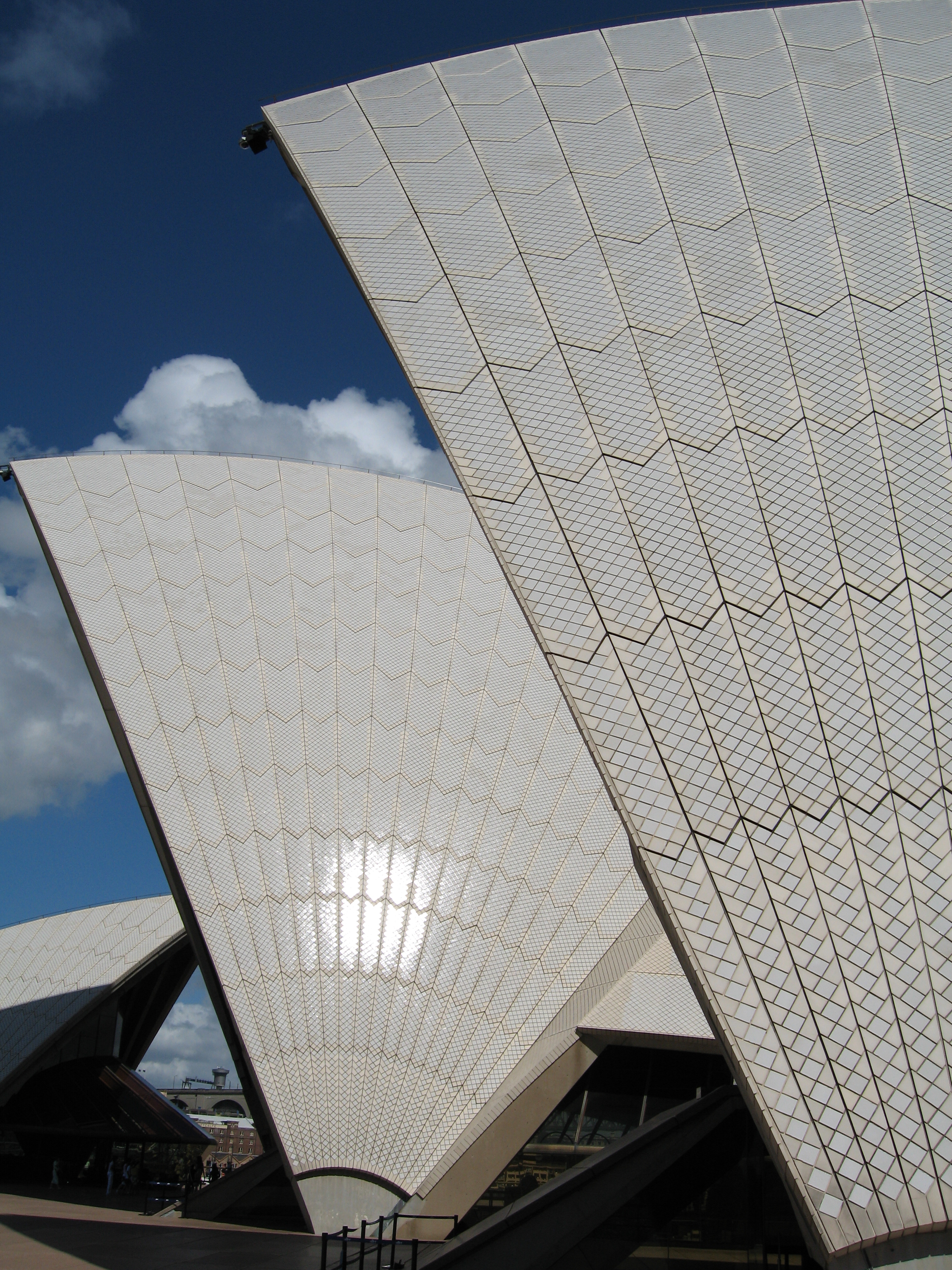 Sydney Opera House, Sydney, Australia.